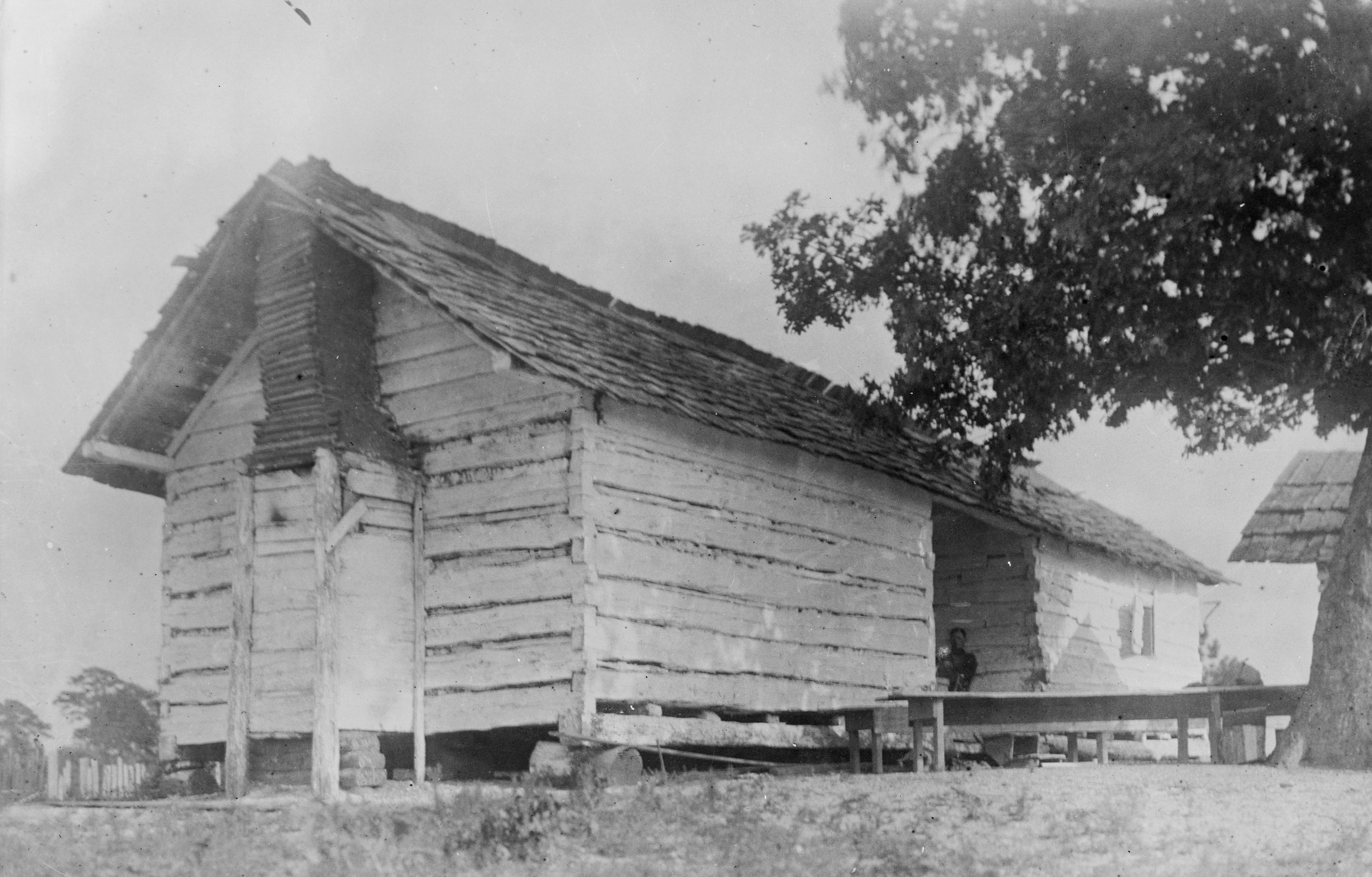 Thornhill Plantation, County Road 19, Watsonia, Greene County, AL. OLD SLAVE QUARTERS.